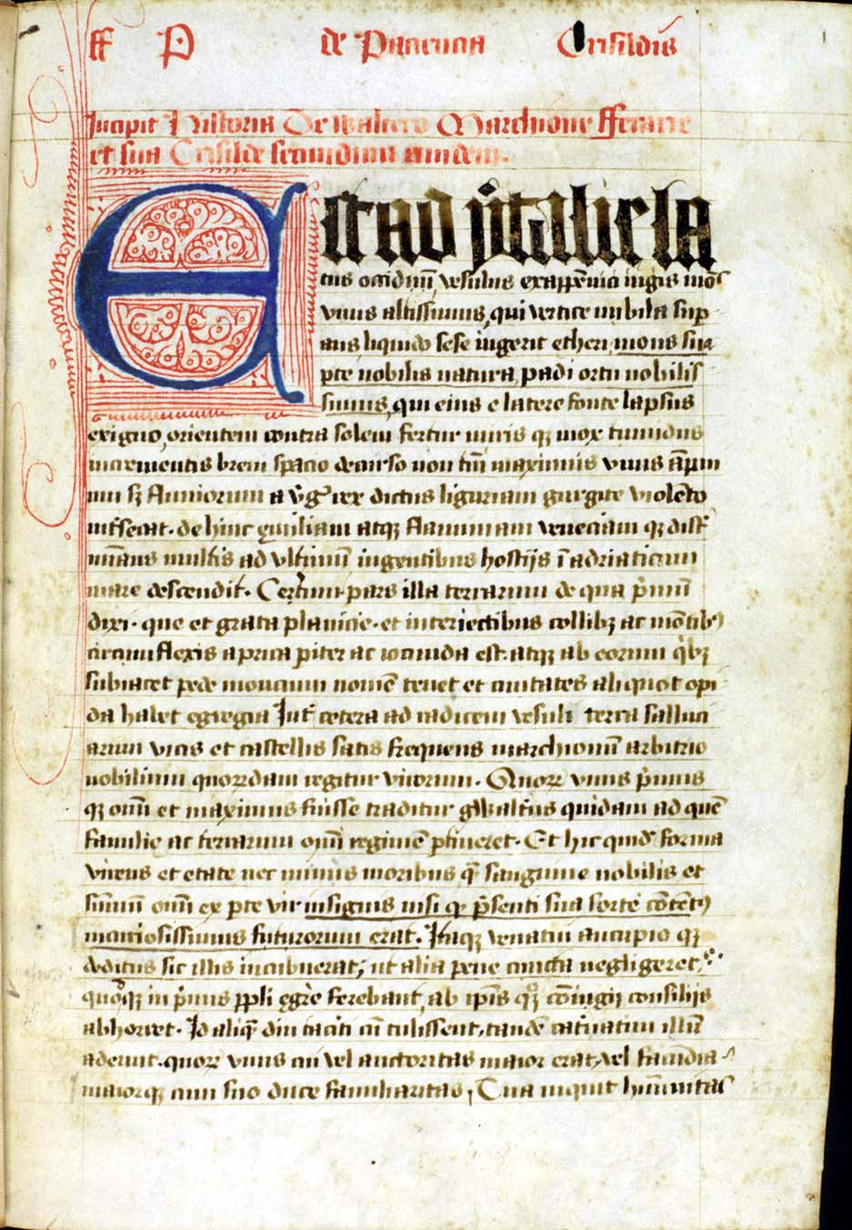 Beginning of text (folio 1r) of Petrarch's Griselda (Chaucer's Clerk's Tale)